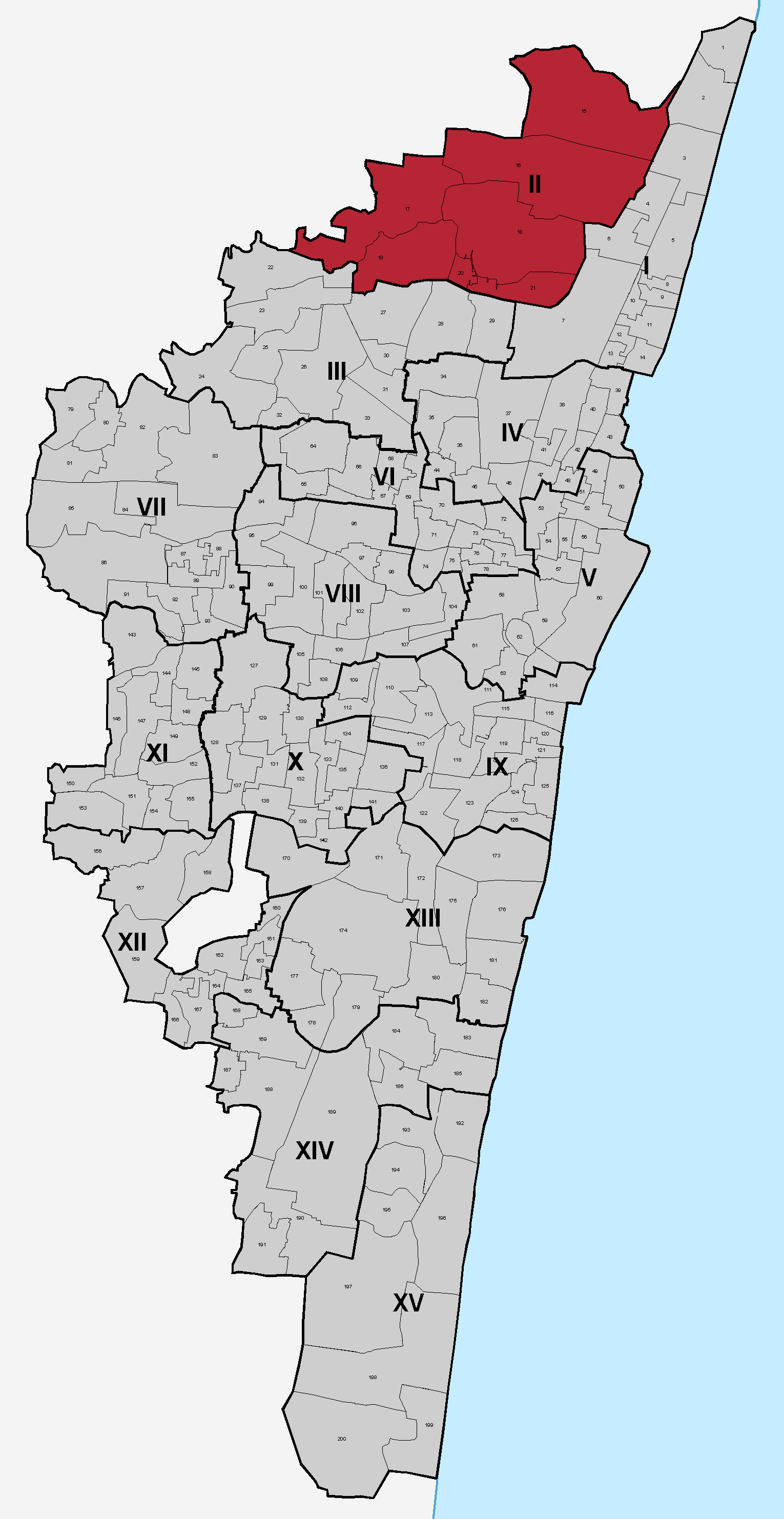 Location of Manali zone in Chennai